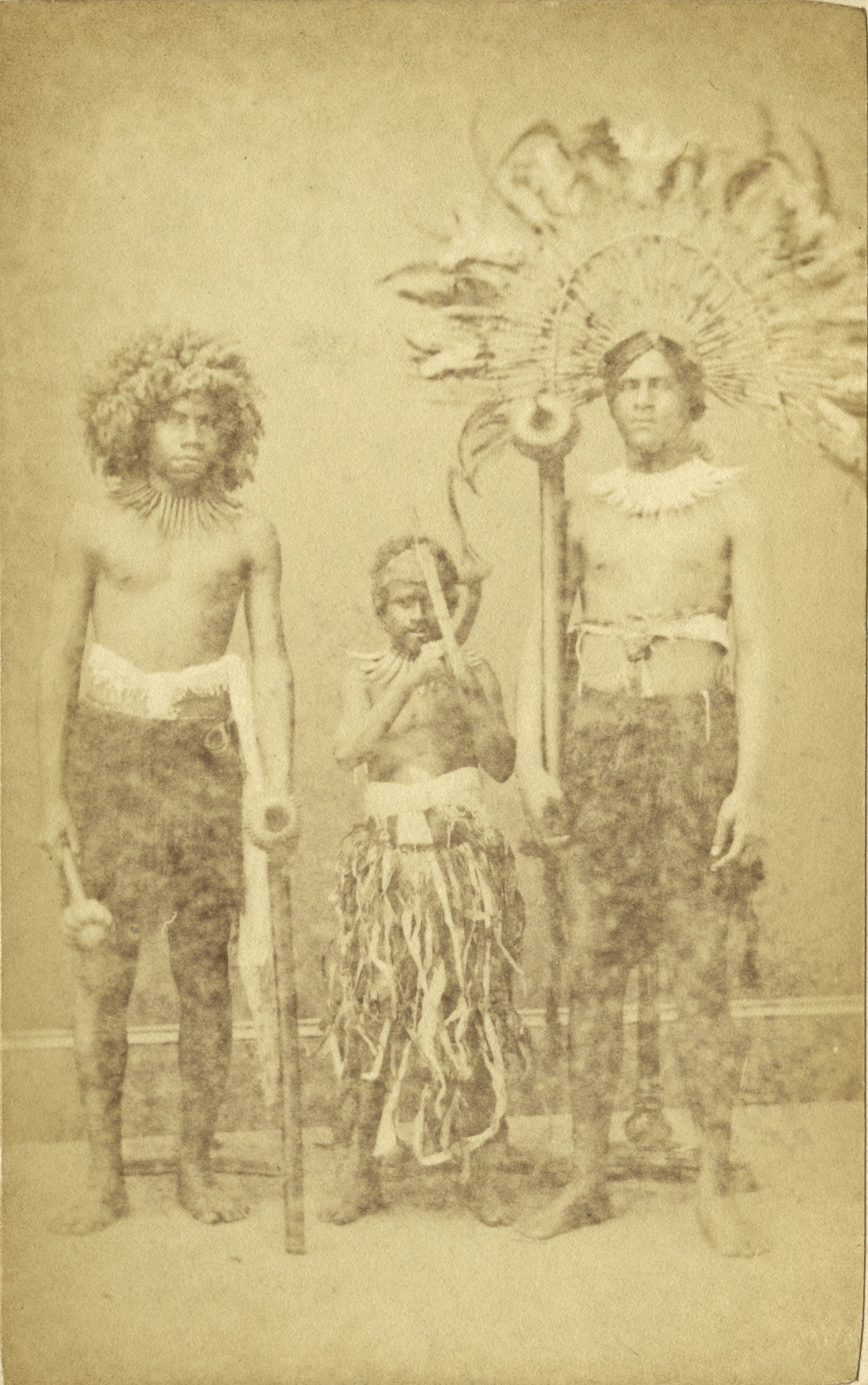 Inscriptions: Inscribed - Verso - Fijian Chiefs & Dwarf. Quantity: 1 b&w original photographic print(s). DC Rights: Not restricted Part of: Haast family :Photographs / Portraits of scientists Format: 1 b&w original photographic print(s), Albumen photoprints, Cartes de visite, Portraits, Single photograph.